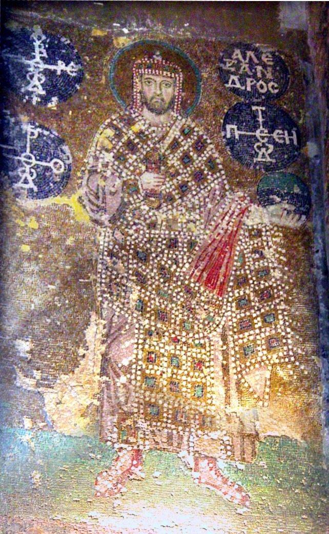 Alexander of Byzantium. Mosaic portrait in Hagia Sophia, Constantinople